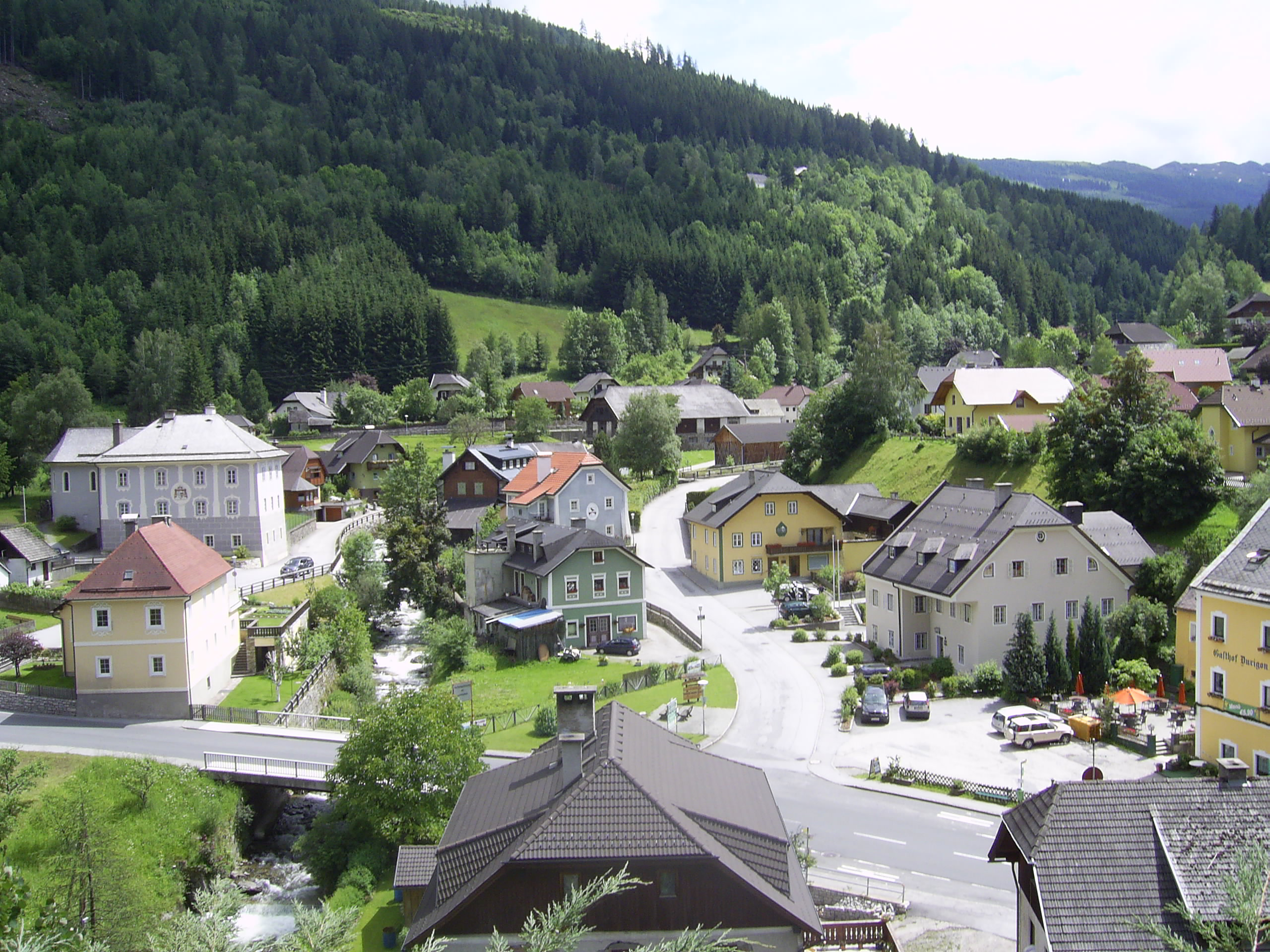 Panorma of Ramingstein